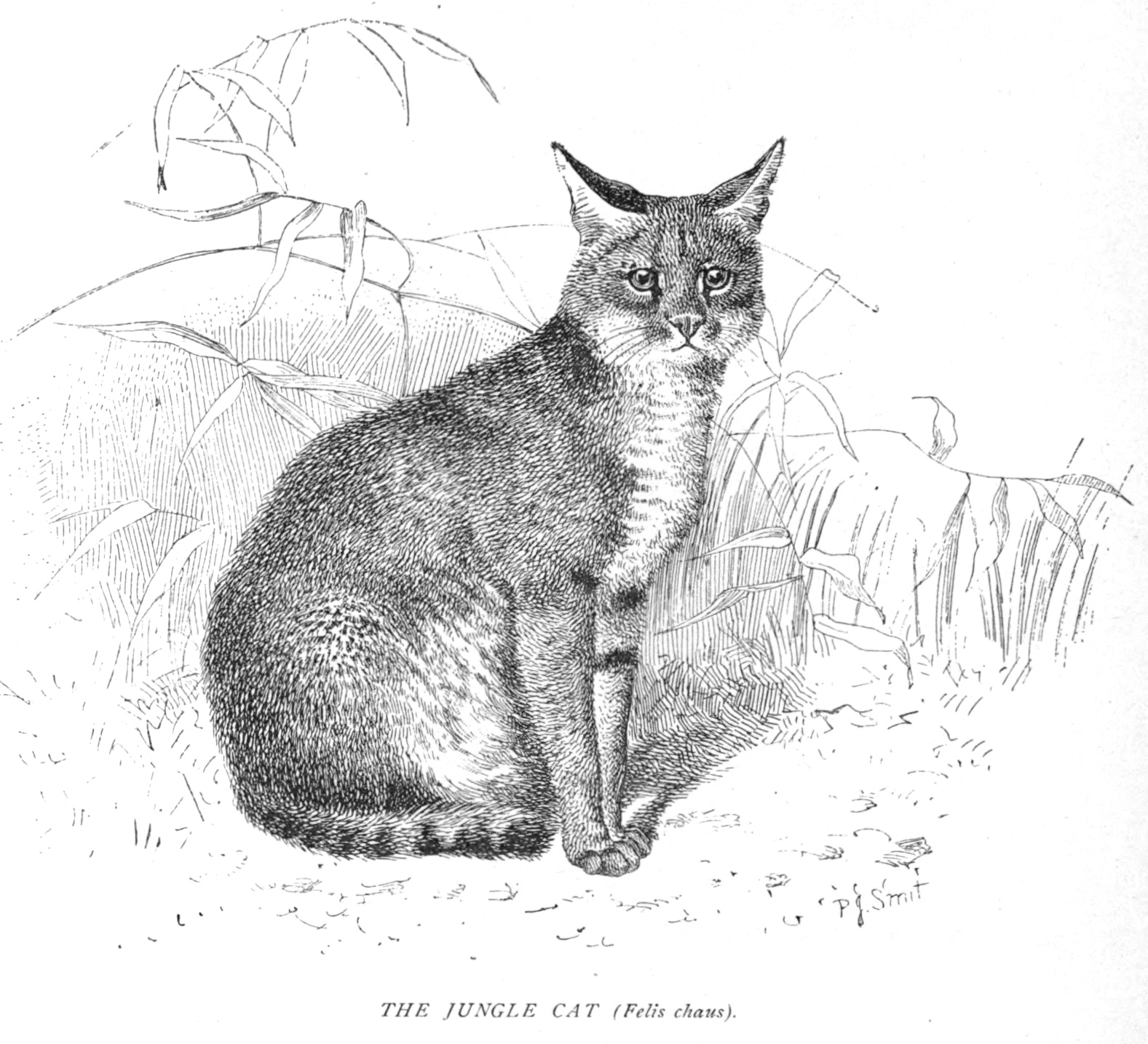 Douglas Hamilton, The Jungle Cat (Felis chaus)...223